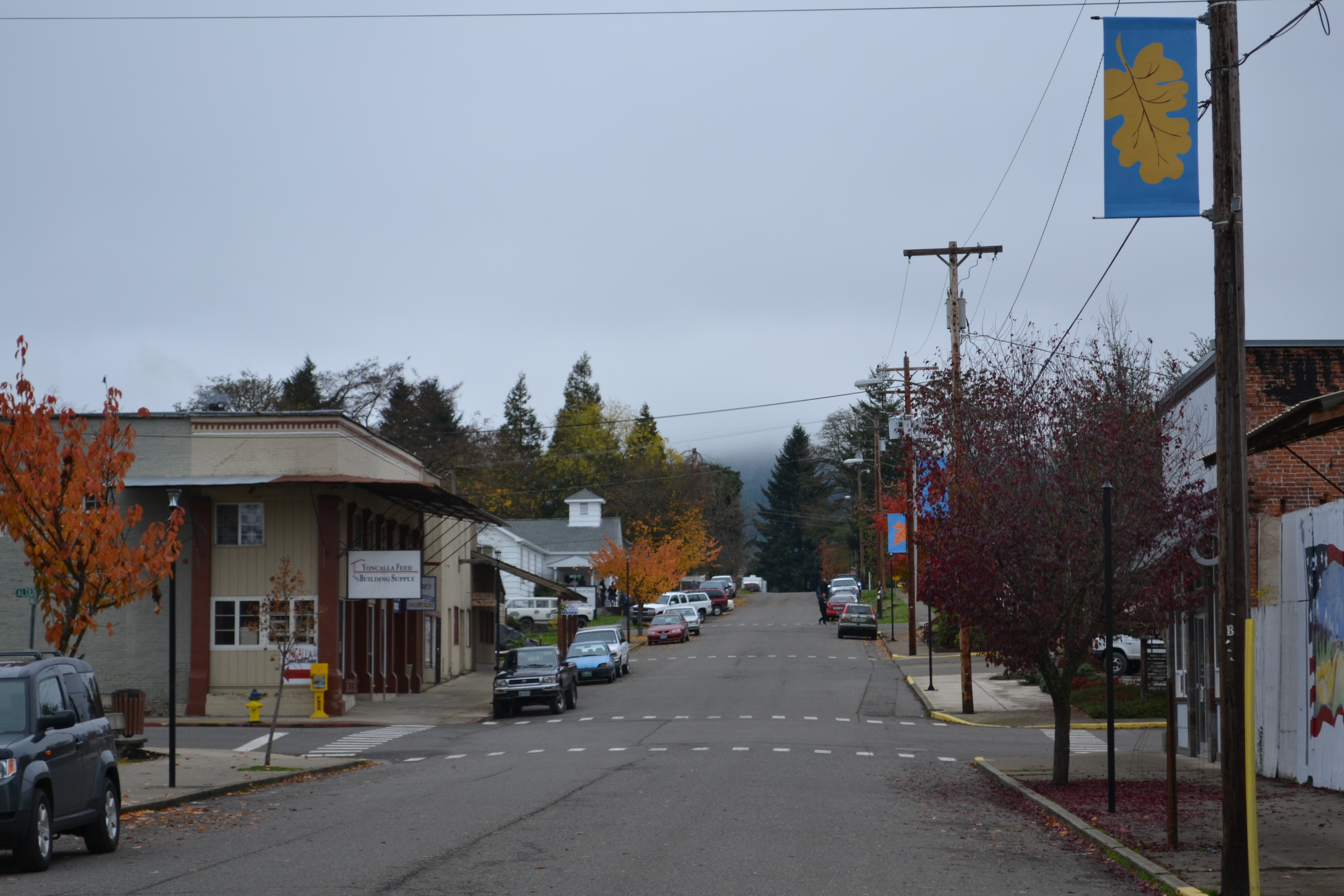 Yoncalla Historic District